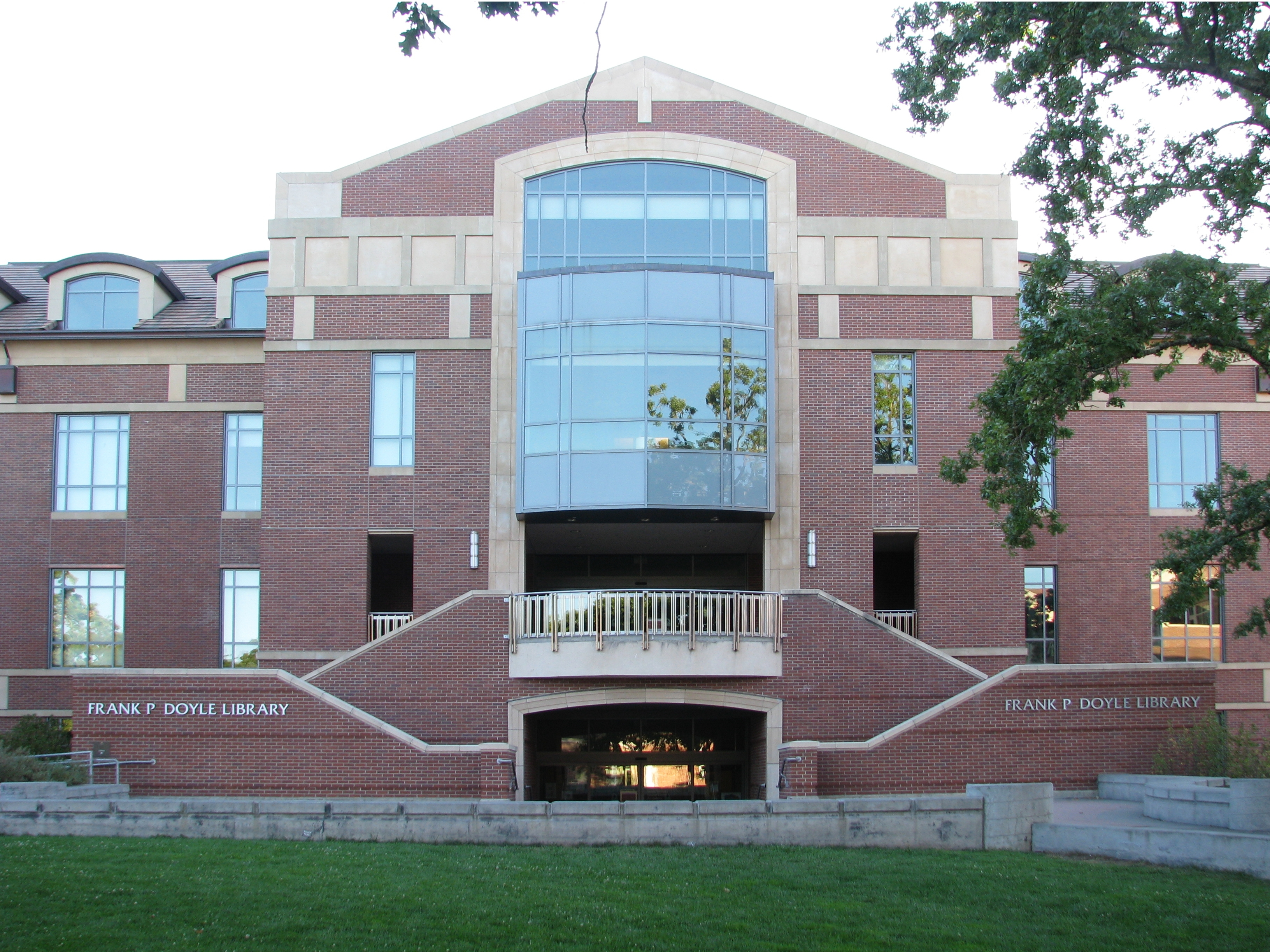 A picture of Santa Rosa Junior College Frank P. Doyle Library shot from the front.